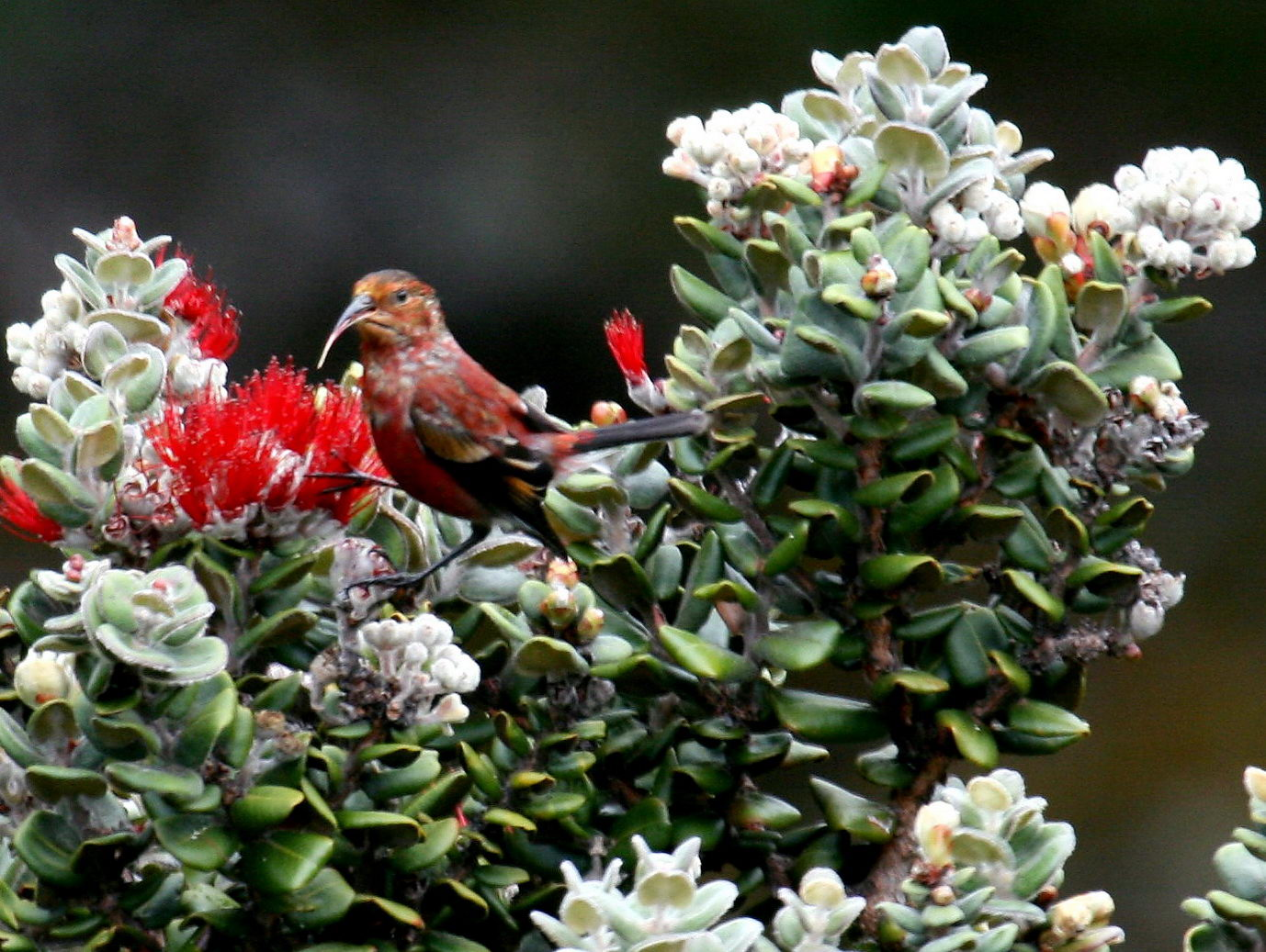 Apapane (Himatione sanguinea) - Maui, Kauai